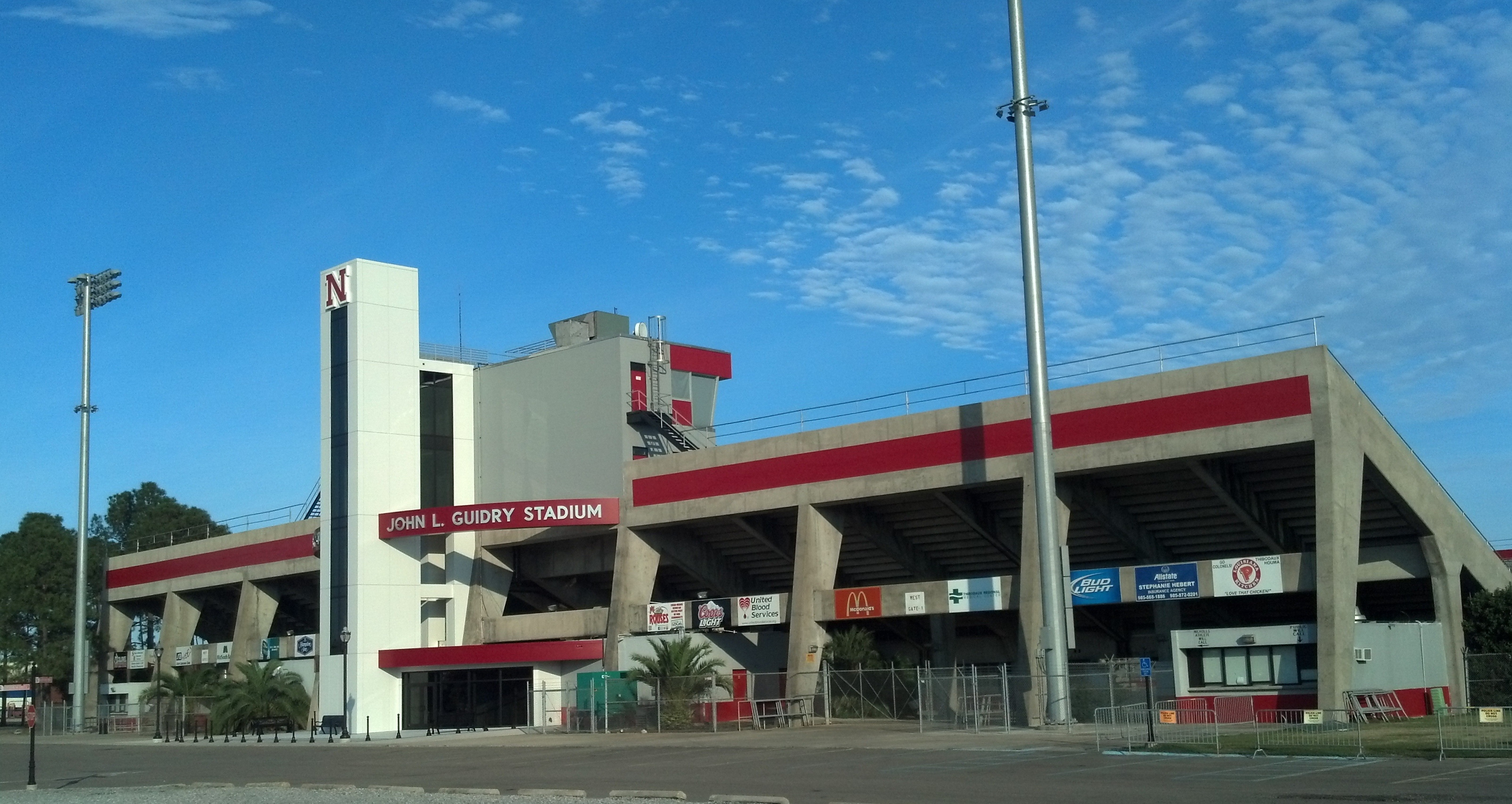 Manning Field at John L Guidry Stadium-Colonels Club Room View